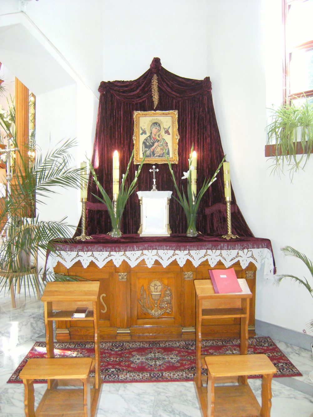 Chapel in Mariavite Church